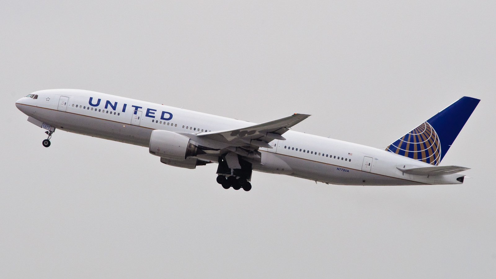 This is the daily morning departure to Washington Dulles that uses a short-range 3-class 777. In the past several days, this particular airframe has been serving the route more than others, as one of the few unrenovated short-range 3-class 777s in the United fleet. This aircraft was the fifth Boeing 777 built, joining the United fleet in September 1995. It is one of several United aircraft that have a special place in my heart; in March 1996, when I lived in New York City and decided to fly over to London, this was my ride both ways, running the Newark - London Heathrow route daily and being the first and only 777 service in New York City. It was my first-ever experience of a Boeing 777, as well as my first Atlantic crossing. This is my first-ever spotting of this aircraft since that trip. Originally delivered in Battleship Gray livery, this aircraft was repainted to the Blue Tulip livery in 2004 or 2005, and repainted once again to the Disco Ball in January 2012. The original nose number of this aircraft when new was 2072, denoting a short-range 3-class 777 with recliner seats and 6-channel personal video (and no air show) in all classes. The late 1990s United First Suite upgrade put in lie-flat first class and upgraded 9-channel personal video with air show, and changed the nose number to 2372. This aircraft will not receive the Suite Dreams updates, but will instead get an updated 2-class cabin, alongside N768UA, N779UA, and N210UA-N215UA. Flight number for the morning is United 902. The second leg of United 902 continues to Munich, though a different 777-200, N768UA, will operate that leg; N772UA will instead run United 916 to Frankfurt. N772UA, formerly "Mary Beth Loesch - Customer," Boeing 777-200